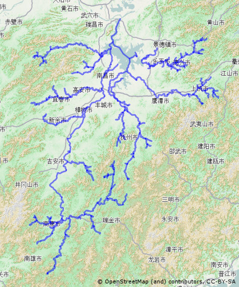 Map of Gan river basin This map may be incomplete, and may contain errors. Don't rely solely on it for navigation.